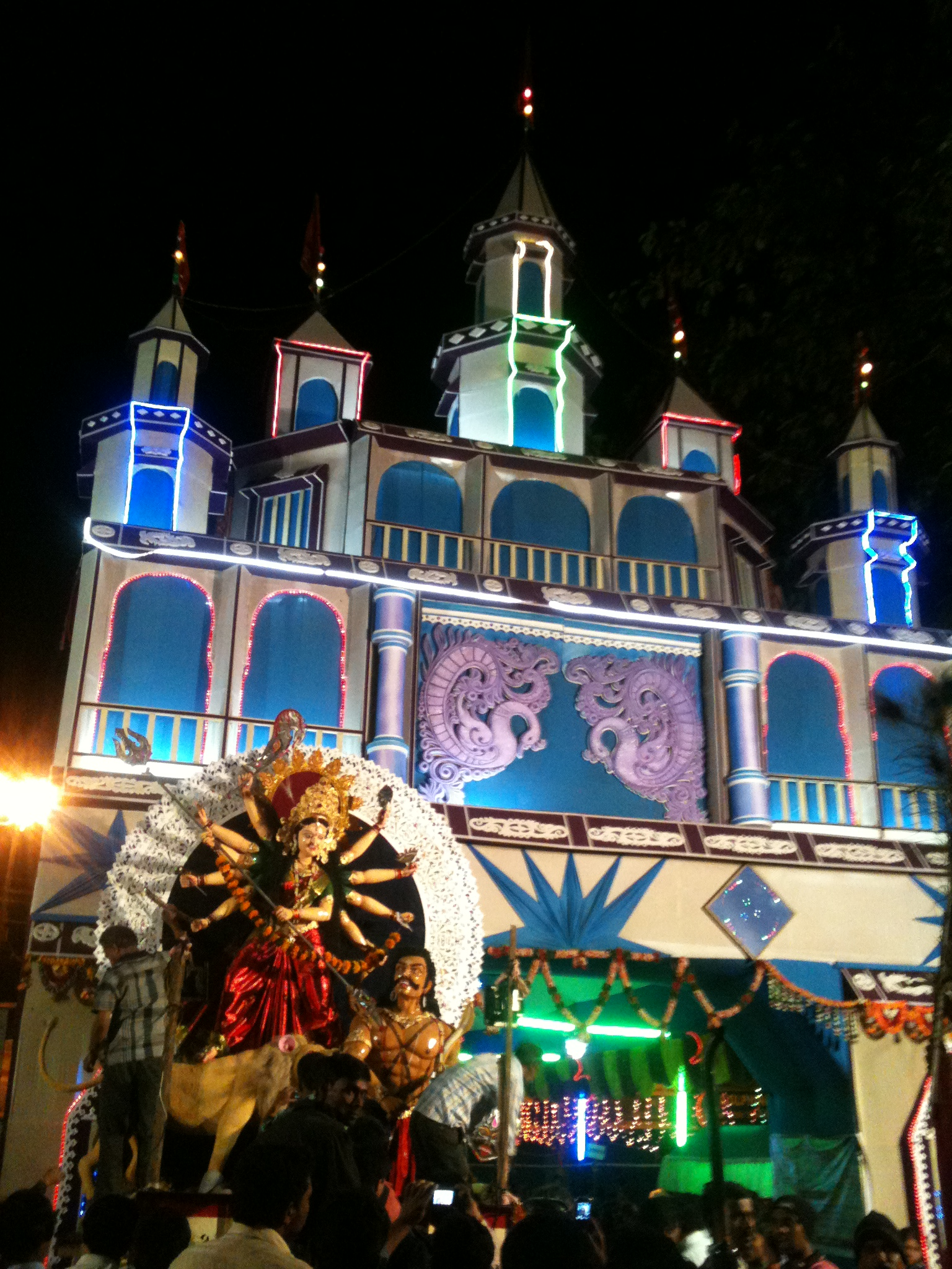 Durga Puja Pandal